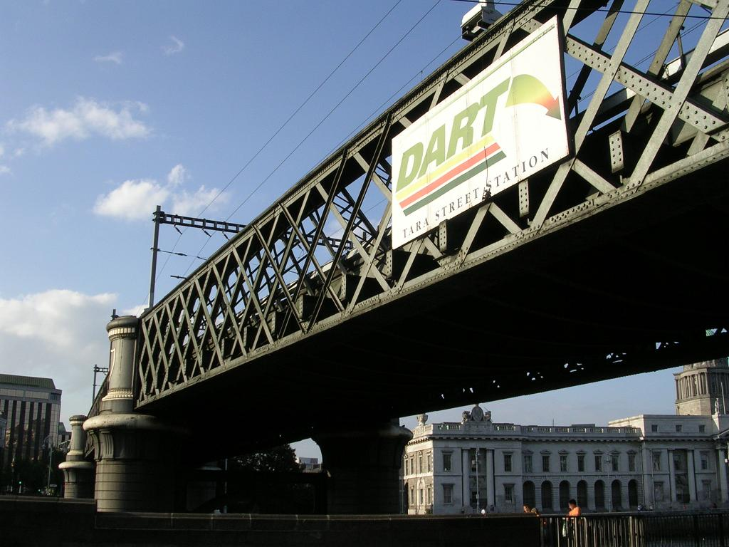 Dart_Tara_Station, Dublín